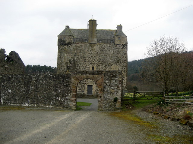 Entrance to Neidpath Castle Tall, robust, solid, forbidding and ancient Scottish Pile. I was going to poke my nose round the entrance, when a personage popped out from nowhere and politely but firmly instructed me to leave.